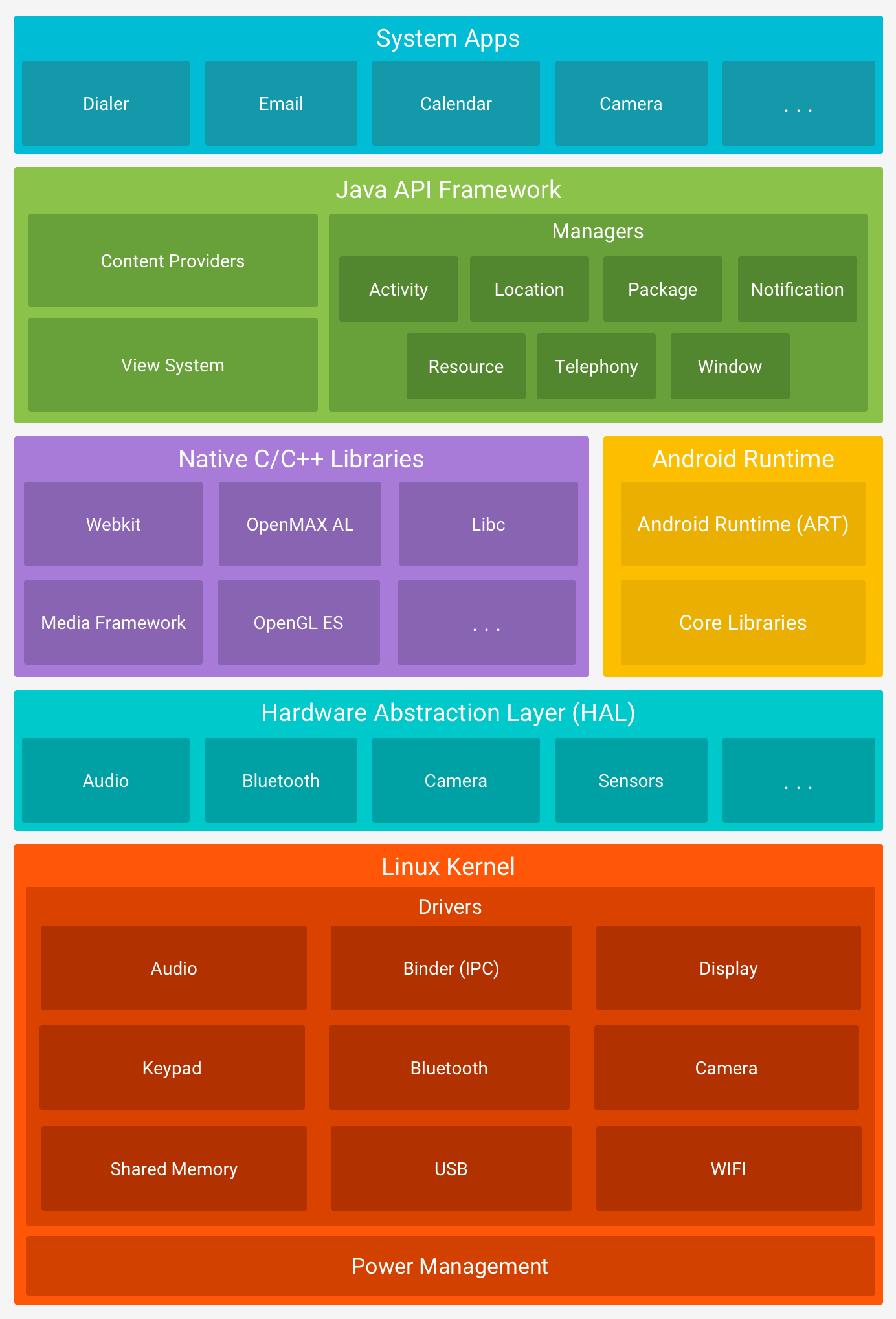 The Android software stack